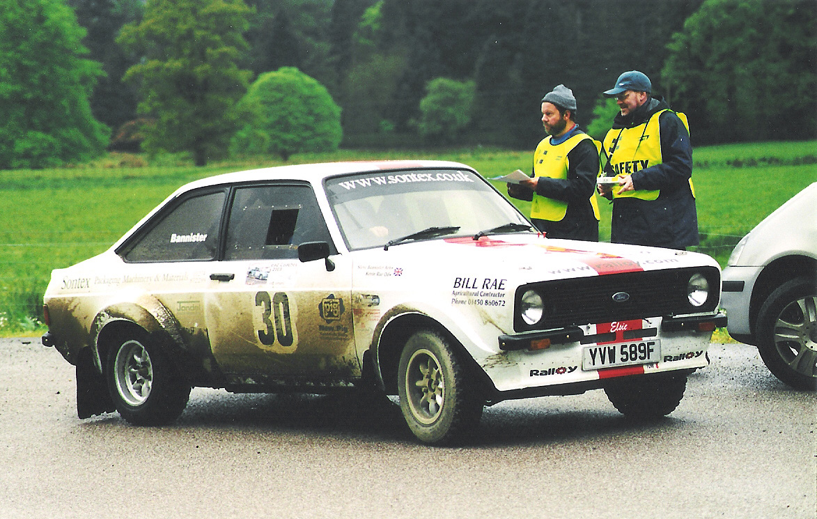 2003 Argyll Rally Ford Escort Mk II (1975-1980) (#30 - Steve Bannister-Kevin Rae, More info)